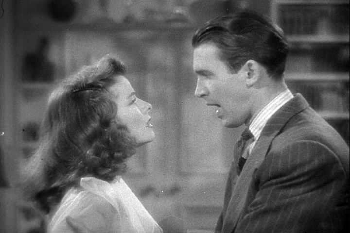 James Stewart and Katharine Hepburn in The Philadelphia Story trailer